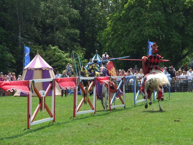 Jousting at Leeds Castle